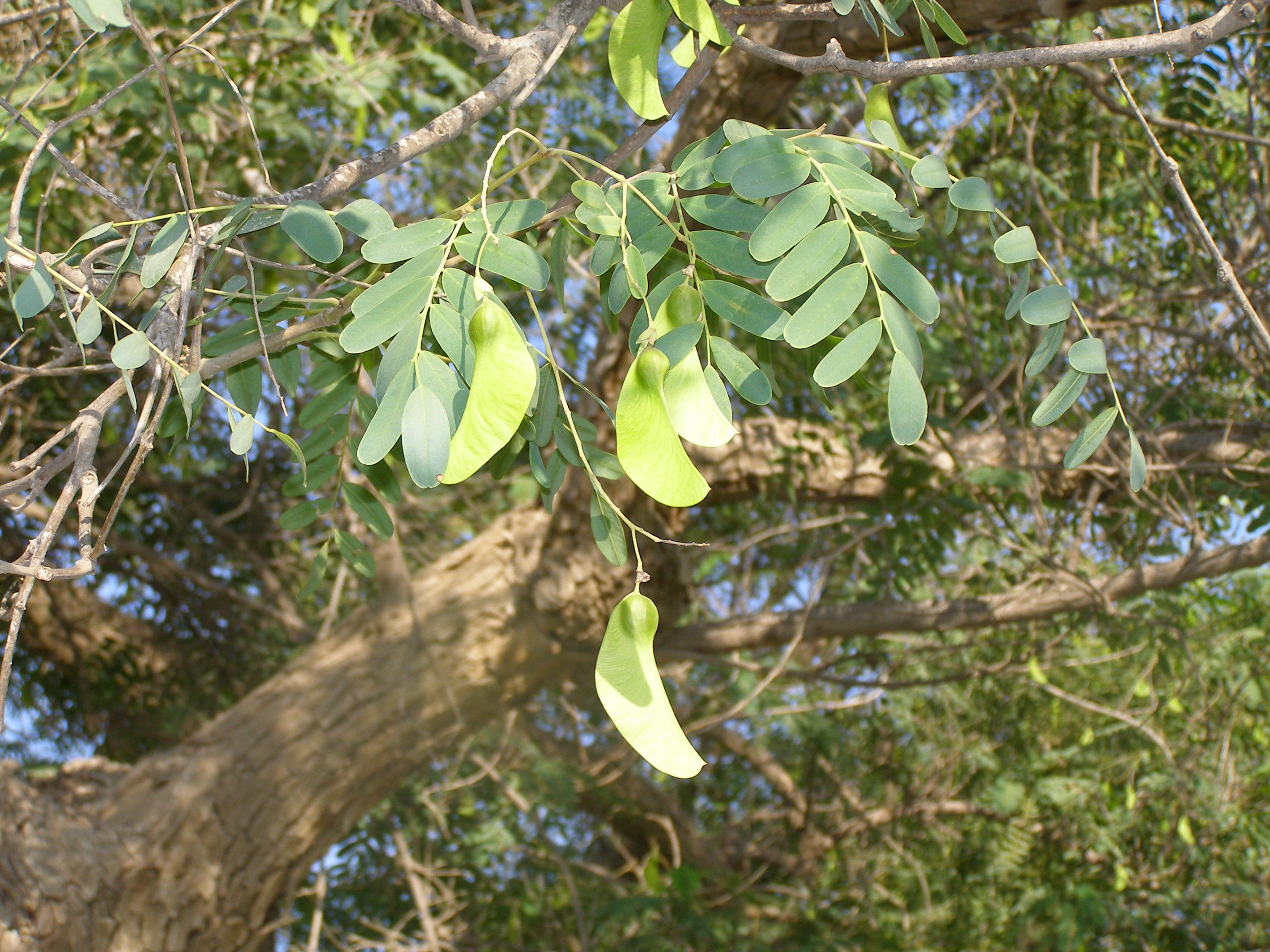 Tipuana tipu foliage and young fruit in Revivim, Israel